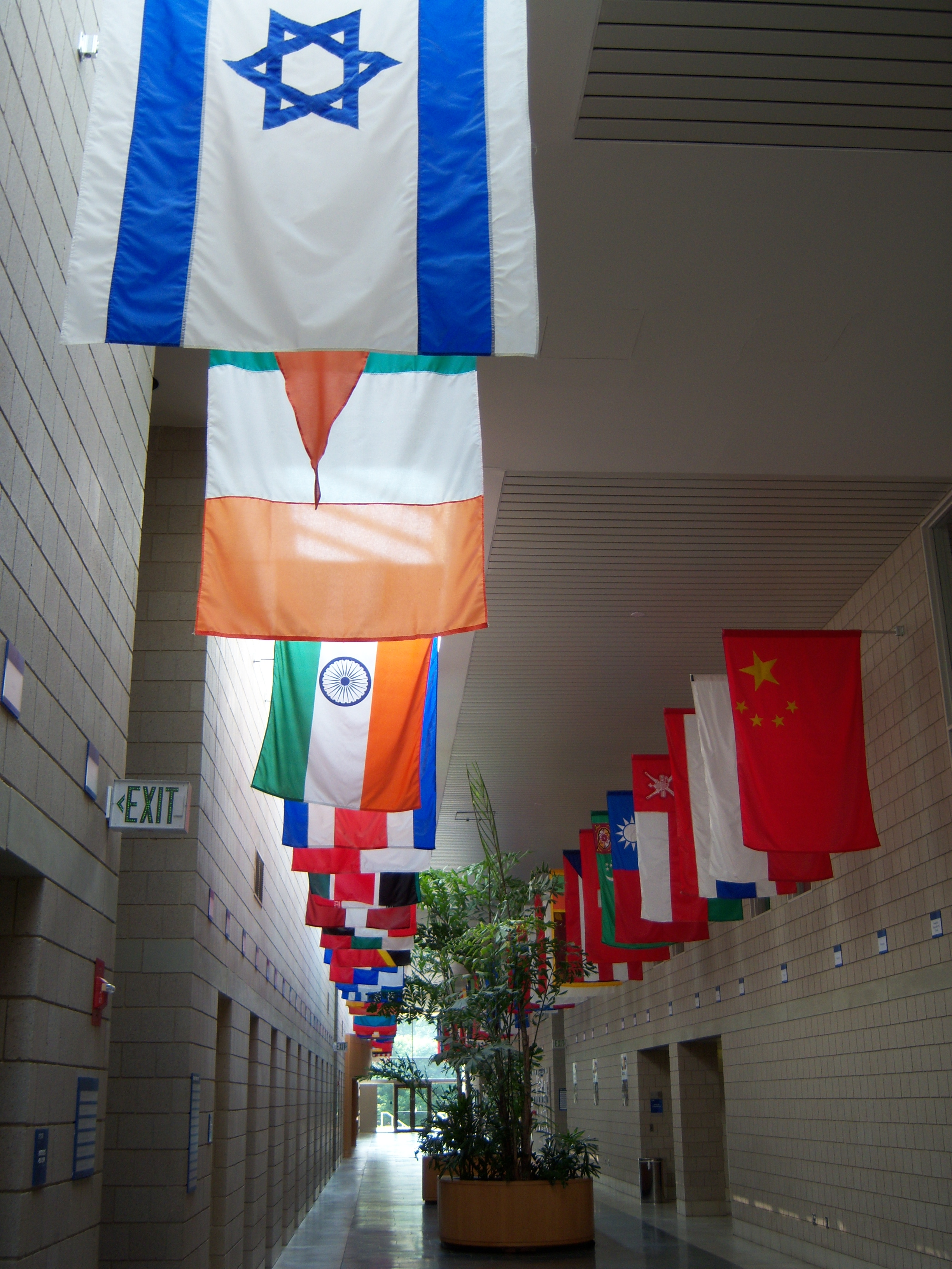 Fuqua School of Business - Keller Center East - Hall of Flags - Israeli Flag